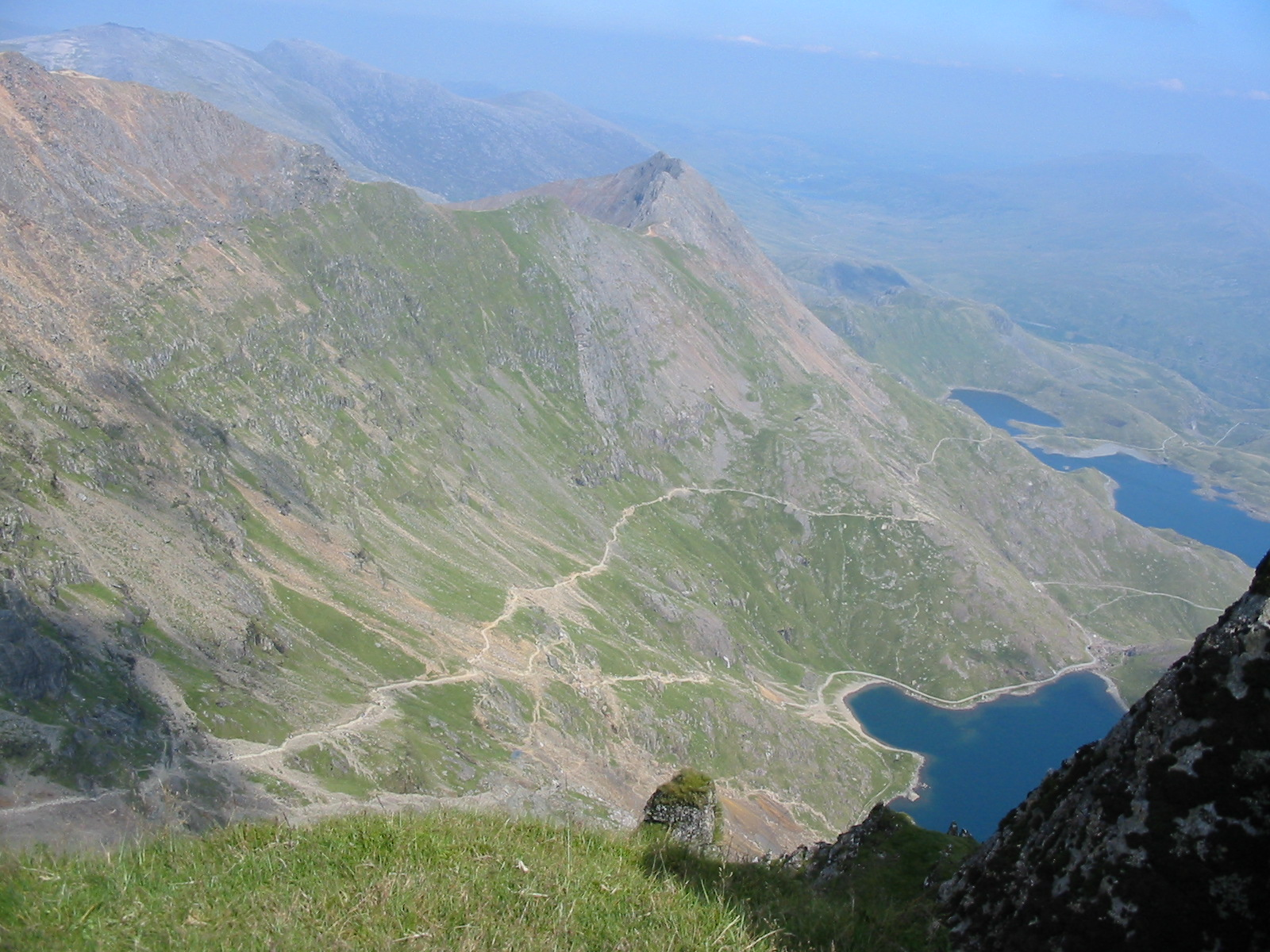 Pyg Trail on the East Ridge of Mount Snowdon, Wales. The summit on the ridge (top centre) is Crib Goch. The Lakes are Glaslyn and Llyn Llydaw